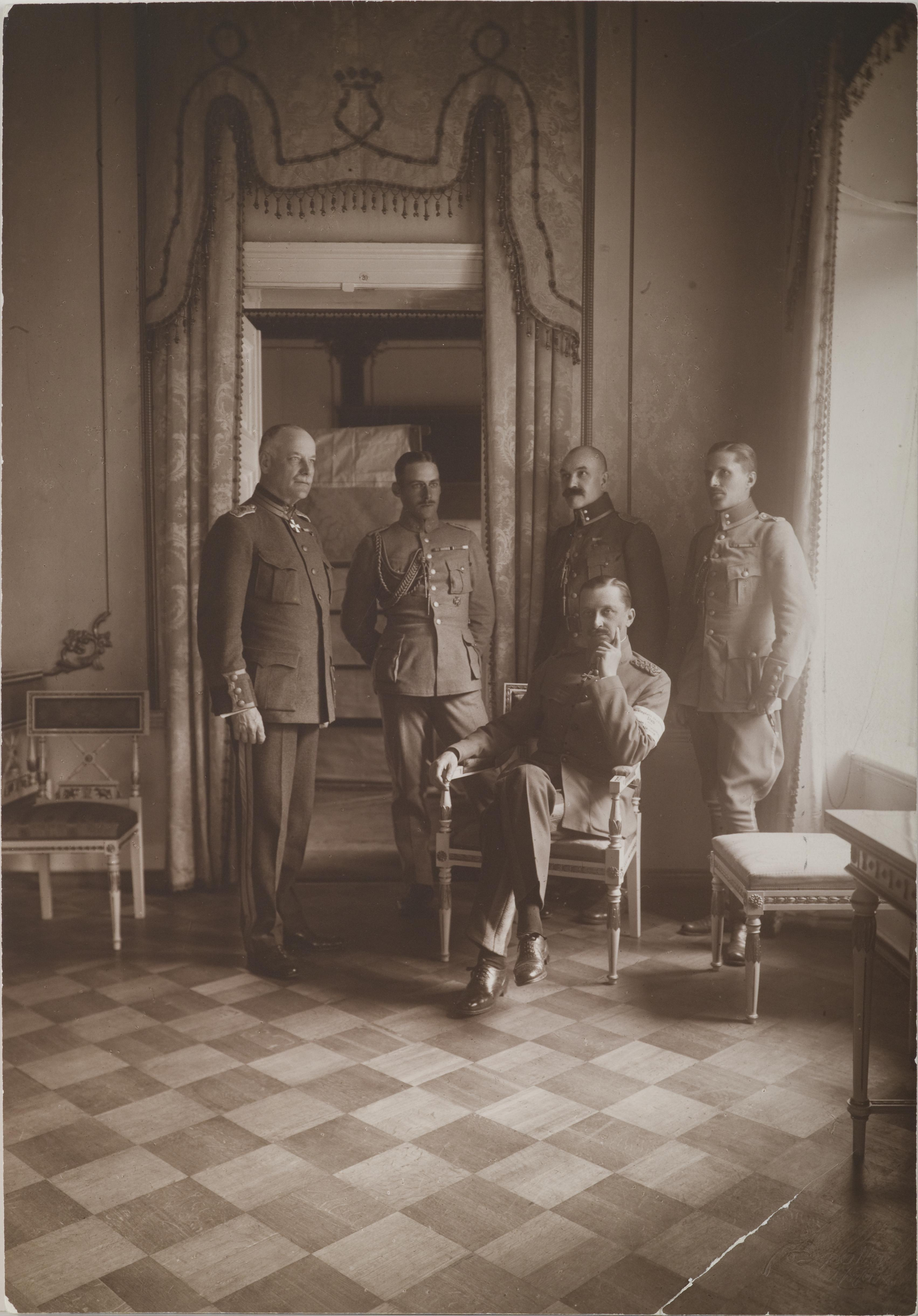 Vuonna 1918 Akseli Gallen-Kallela oli kaksi viikkoa sisällissodan rintamalla. Sieltä kenraali Mannerheim kutsui hänet suunnittelemaan lippuja, kunniamerkkejä, univormuja ja muita itsenäisen Suomen tunnuksia. Akseli Gallen-Kallela palveli Mannerheimin adjutanttina vuonna 1919. Hän maalasi useita muotokuvia Mannerheimista, mukaan lukien kuuluisan Mannerheim-museossa nykyisin sijaitsevan muotokuvan vuodelta 1928. Sen tilasi Liittopankki, jonka hallitusneuvoston puheenjohtajana Mannerheim toimi. In 1918 Akseli Gallen-Kallela fought on the frontline of the Finnish Civil War for two weeks. Afterwards he was invited by General Carl Gustaf Emil Mannerheim to design flags, official decorations, uniforms and more for the new, independent Finland. Akseli Gallen-Kallela later served as Mannerheim’s adjutant in 1919. He also painted several portraits of Mannerheim, including the famous portrait commissioned in 1928 by the Union Bank of Finland where Mannerheim served as president of the board (this painting is now in the Mannerheim Museum). Kuvauspaikka: ajoitus: 1919 kuvaaja: mitat: tekniikka: valokuvavedos merkintöjä: Vas. Lilius, Kekoni, Gallen-Kallela, Rosenbröjer, istumassa Mannerheim, v.1919. Palautettava K. Gallen-Kallela, Munkkiniemen puistotie 5 A. KR-L- 14. v.1919. inventointinumero: Levy II./12 kokoelma: Akseli Gallen-Kallelan valokuvakokoelma tutki lisää / explore further: Tiedätkö lisää tästä kuvasta? Kerro meille! Do you have information on this photo? Let us know!